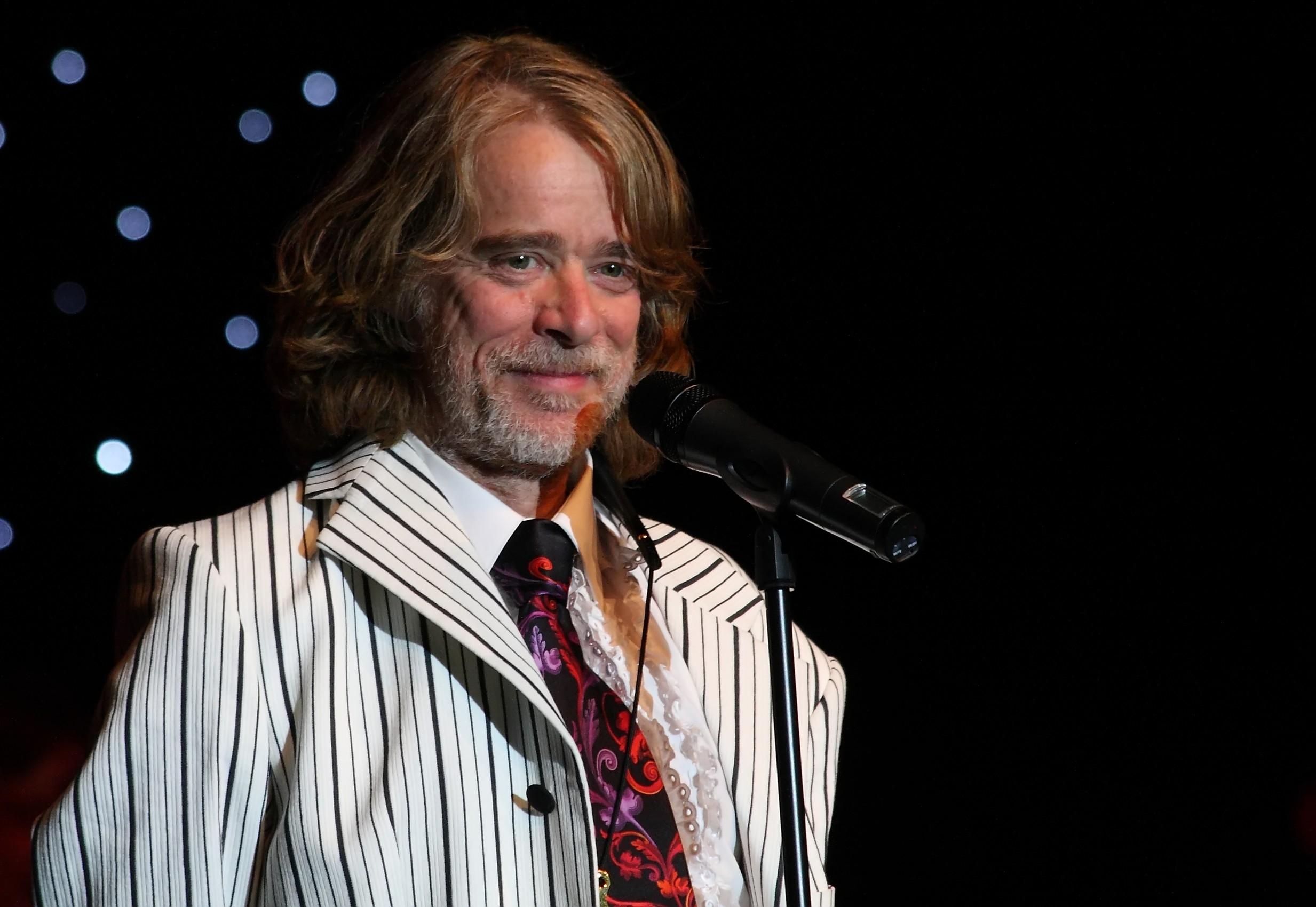 Helge Schneider performing in Uhingen; EXIF: 235mm, 1/125s, f/6.3, 3200 iso